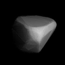 3D convex shape model of 6882 Sormano, computed using light curve inversion techniques. J. Hanuš, J. Ďurech, M. Brož, B. D. Warner (June 2011). "A study of asteroid pole-latitude distribution based on an extended set of shape models derived by the lightcurve inversion method". Astronomy and Astrophysics 530: A134. ISSN 0004-6361. arXiv